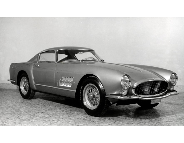 1955 Ferrari 250 GT Competizione Berlinetta "Tour de France" by Scaglietti, s/n 0425GT. Unknown location in the photograph, may be a showroom, as there is another Ferrari next to it (different image).